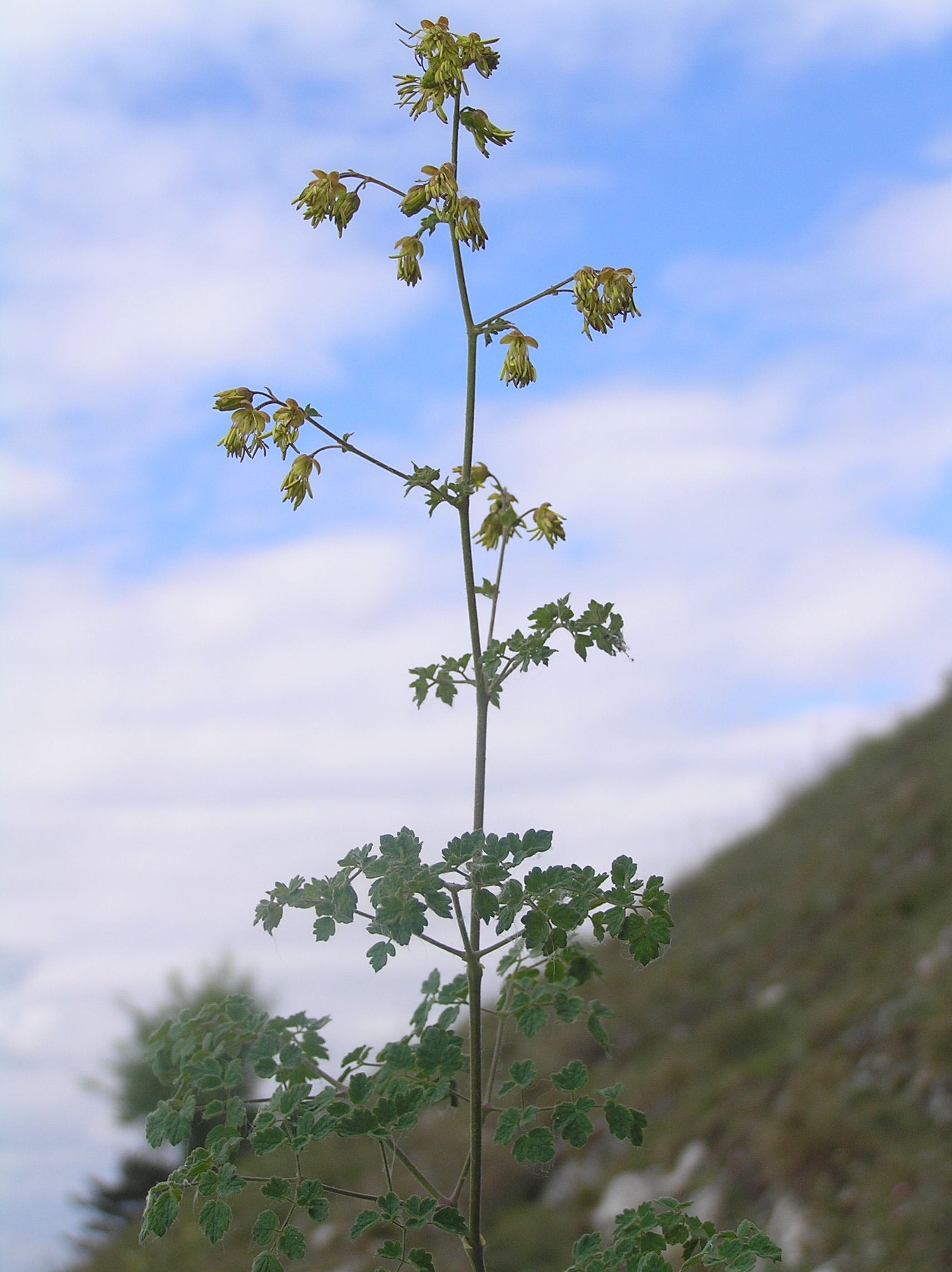 Thalictrum foetidum, Svatý kopeček near Mikulov, Southern Moravia, Czech Republic